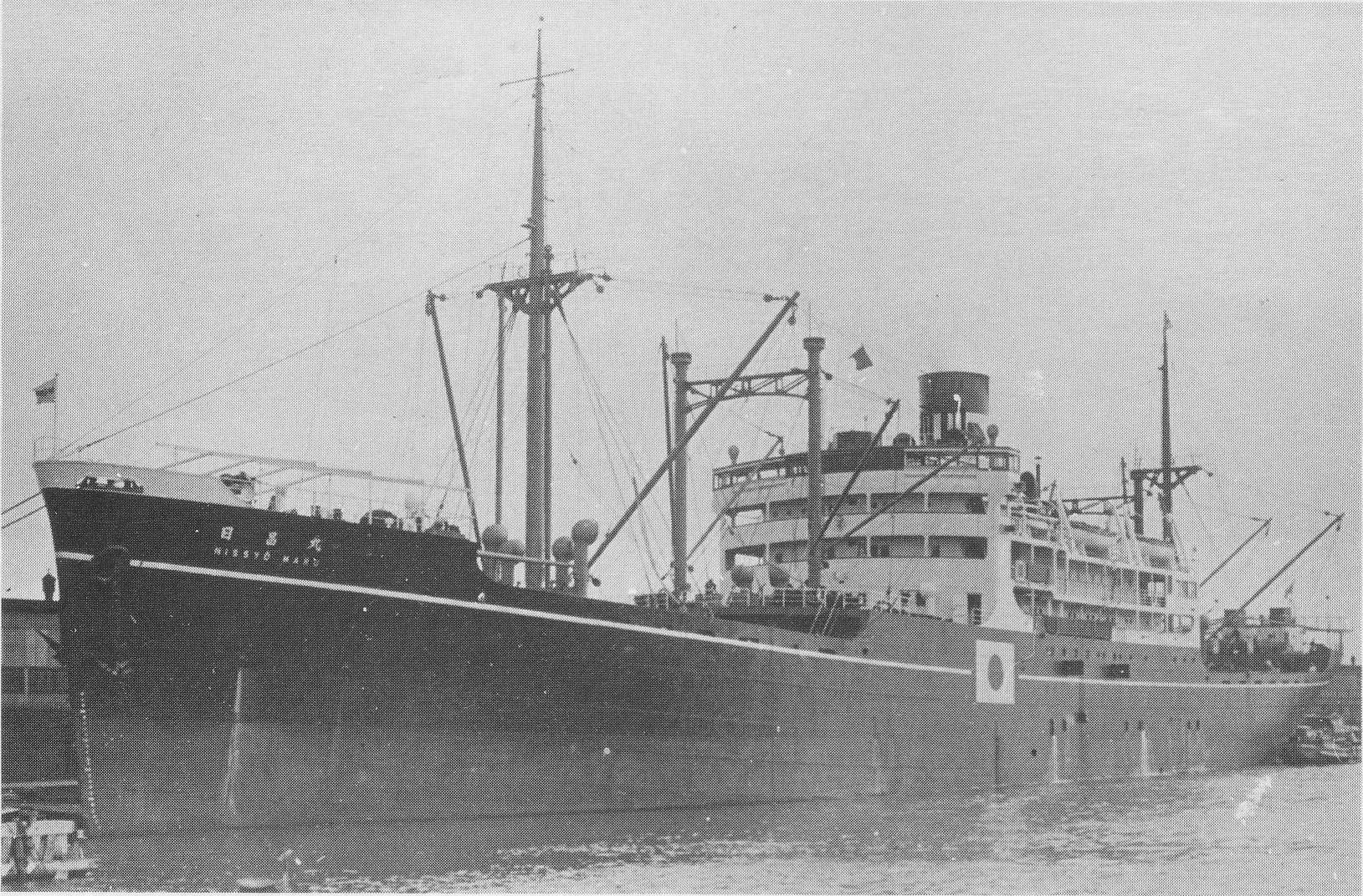 Nan-yo Line "Nissyo Maru". Completed in 1939, retired in 1965.